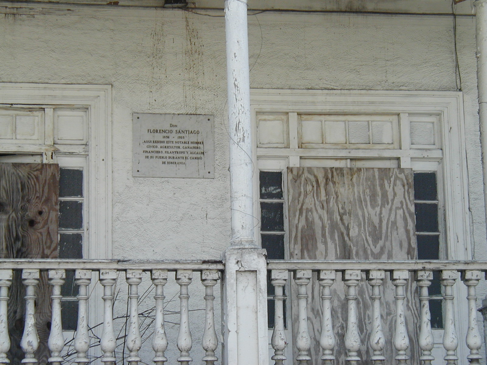 The house of Florencio Santiago in Coamo, Puerto Rico